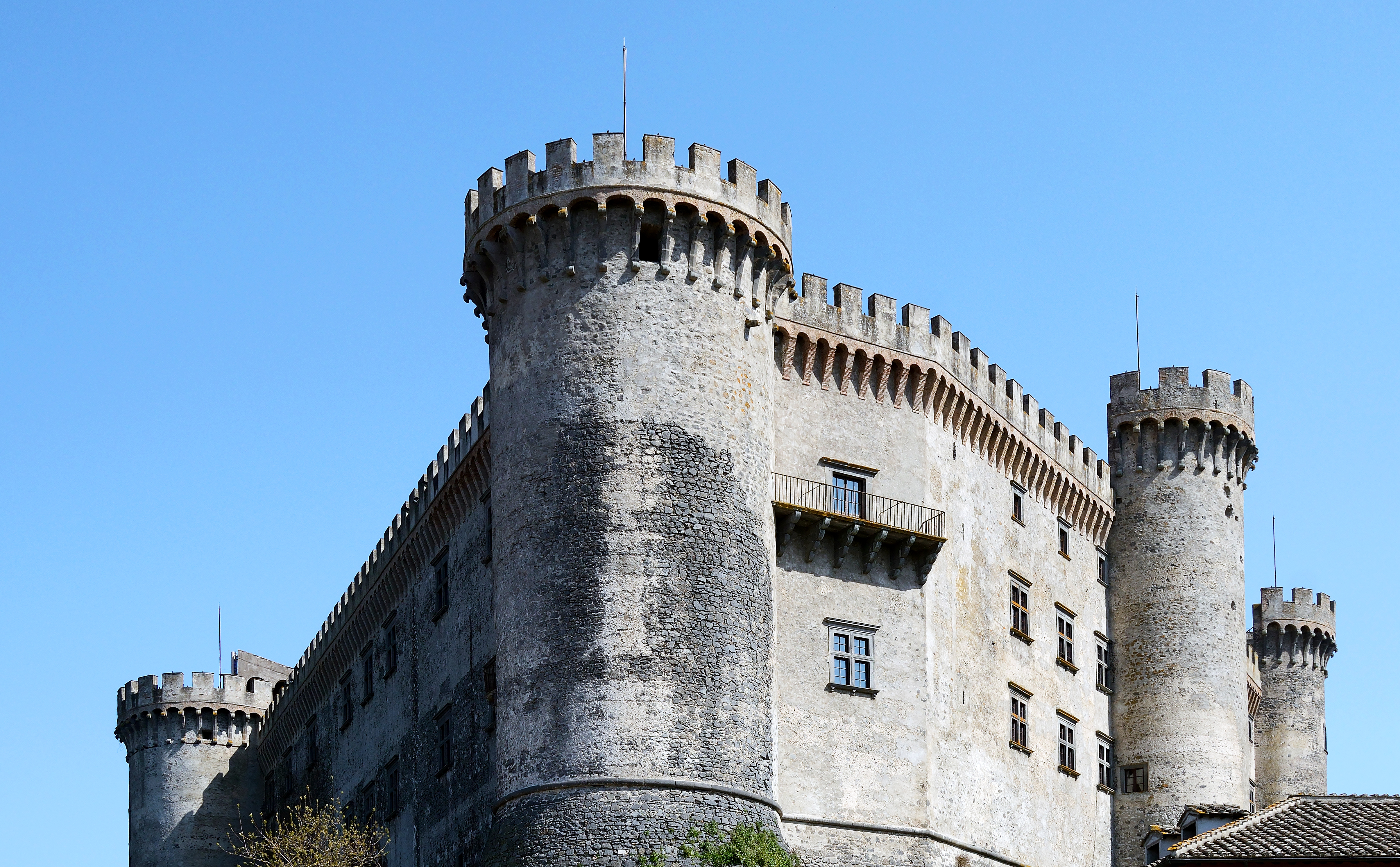 Castel Orsini-Odescalchi (Bracciano)